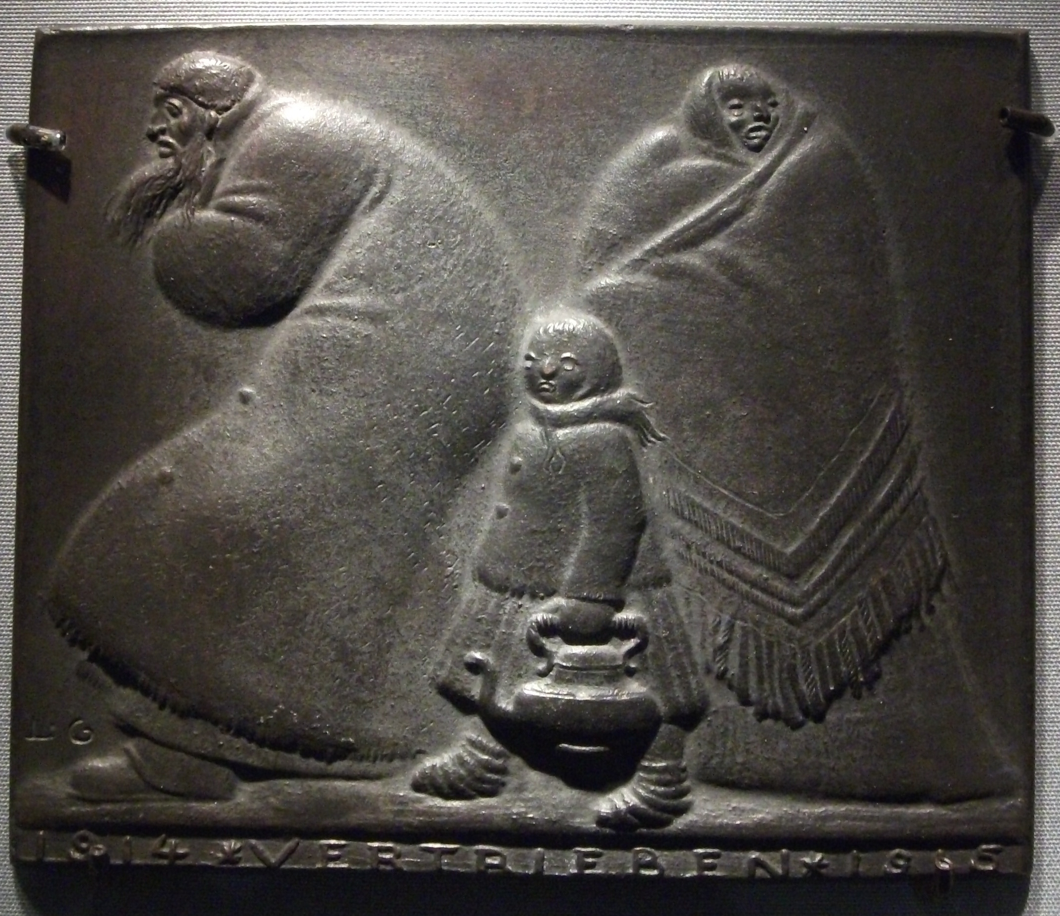 "Refugees", 1915, by Ludwig Gies, cast iron, 8 x 9.8 cm, inscribed "1914·VERTRIEBEN·1915" = "Refugees 1914-1915". In the British Museum exhibition: "The other side of the medal: how Germany saw the First World War", 9 May – 23 November 2014